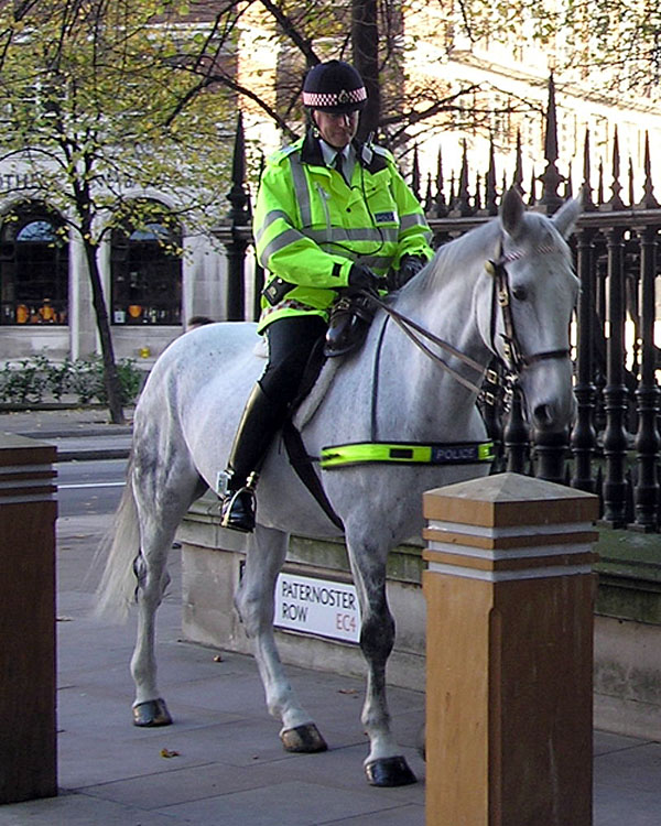 Mounted police officer seen in London in November 2004. Member of the City of London police on a white horse wearing a high-vis jacket, going along Paternoster Row.